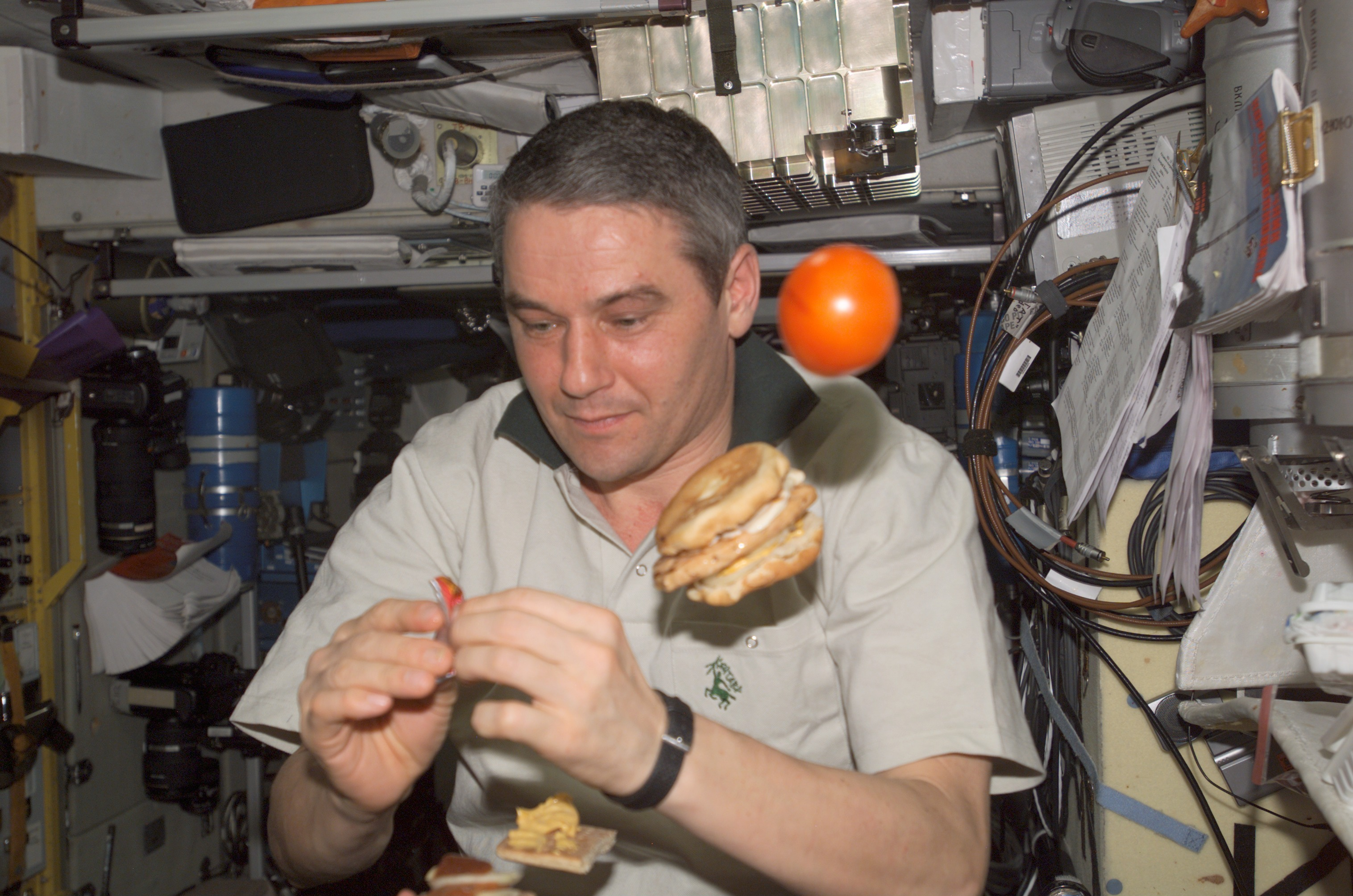 Cosmonaut Valery G. Korzun, Expedition Five mission commander, prepares to eat a meal in the Zvezda Service Module on the International Space Station (ISS). Korzun represents Rosaviakosmos.